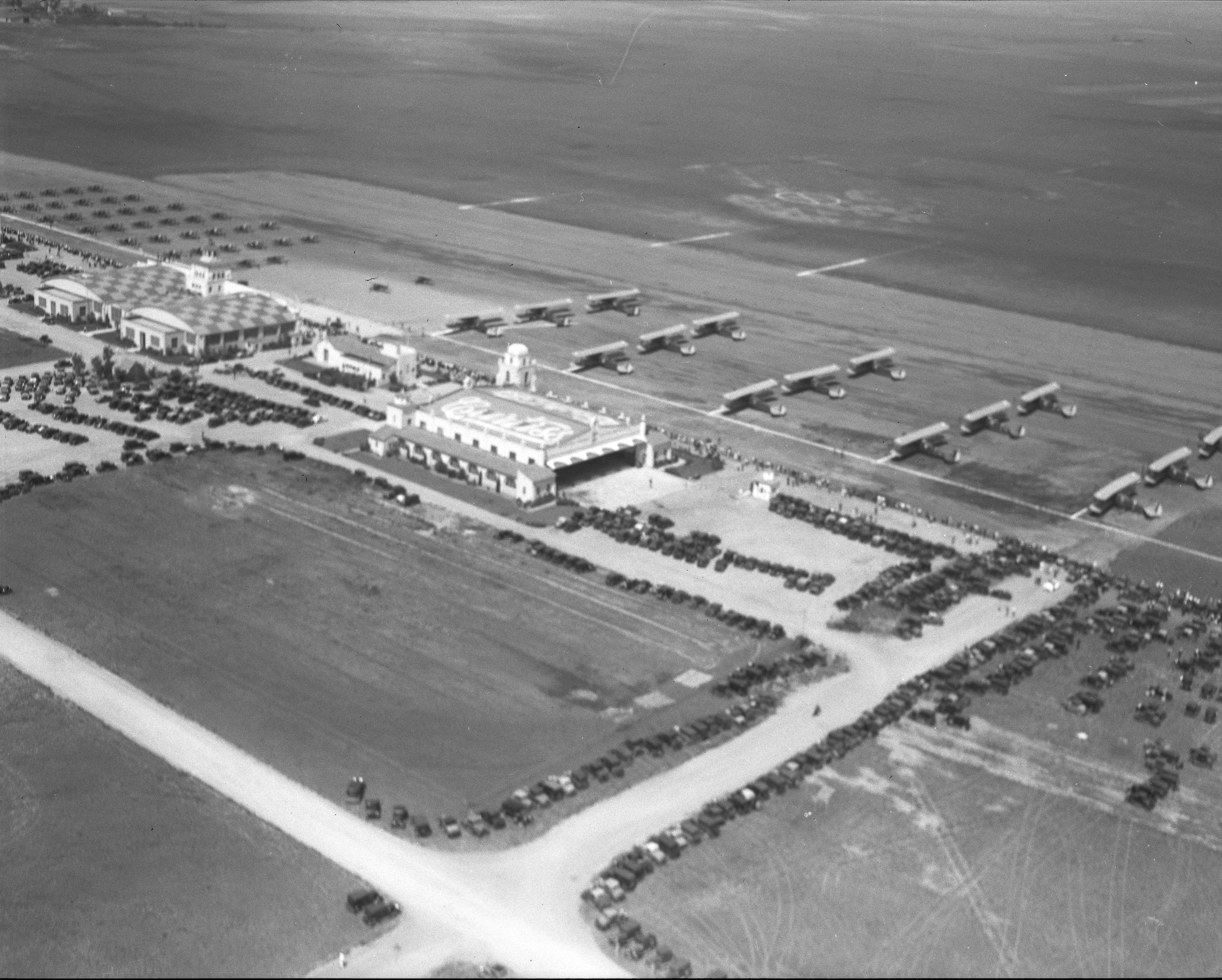 Aerial view of Los Angeles Municipal Airport on Army Day, circa 1931